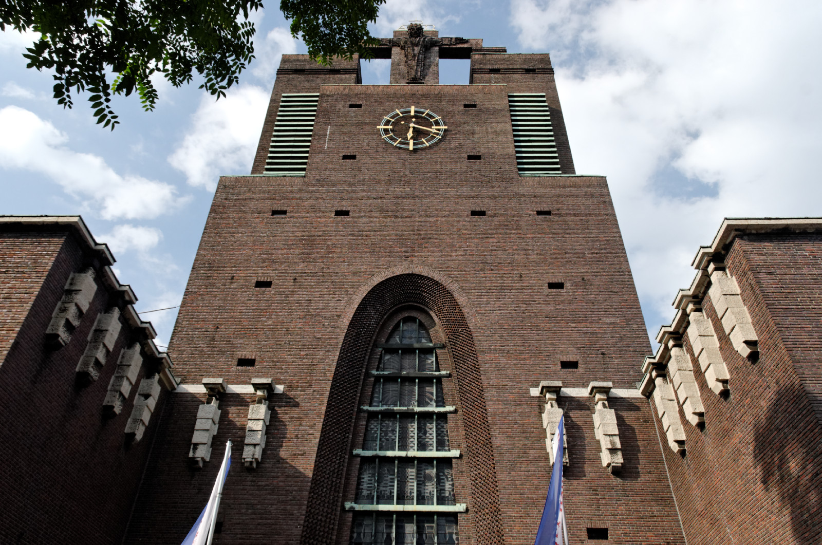 Tower of Holy Cross Church in Gelsenkirchen, Germany This is a photograph of an architectural monument.It is on the list of cultural monuments of Gelsenkirchen